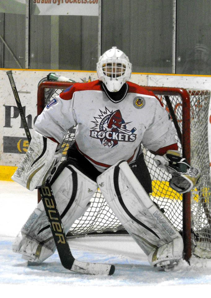 This photo was taken by Devan Mighton during the 2014-15 GOJHL season.